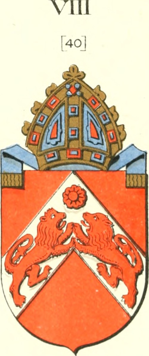 Coat of arms of John Hepburn, Bishop of Brechin. Identifier: lacunarbasilicae00geddrich Title: Lacunar basilicae Sancti Macarii, aberdonensis: the heraldic ceiling of the cathedral church of St. Machar, old Aberdeen Year: 1888 (1880s) Authors: Geddes, W. D., Sir (William Duguid), 1828-1900 Duguid, Peter Subjects: Old Machar Church (Aberdeen, Scotland) Heraldry -- Scotland Heraldry, Ornamental Publisher: Aberdeen : Printed for the New Spalding Club